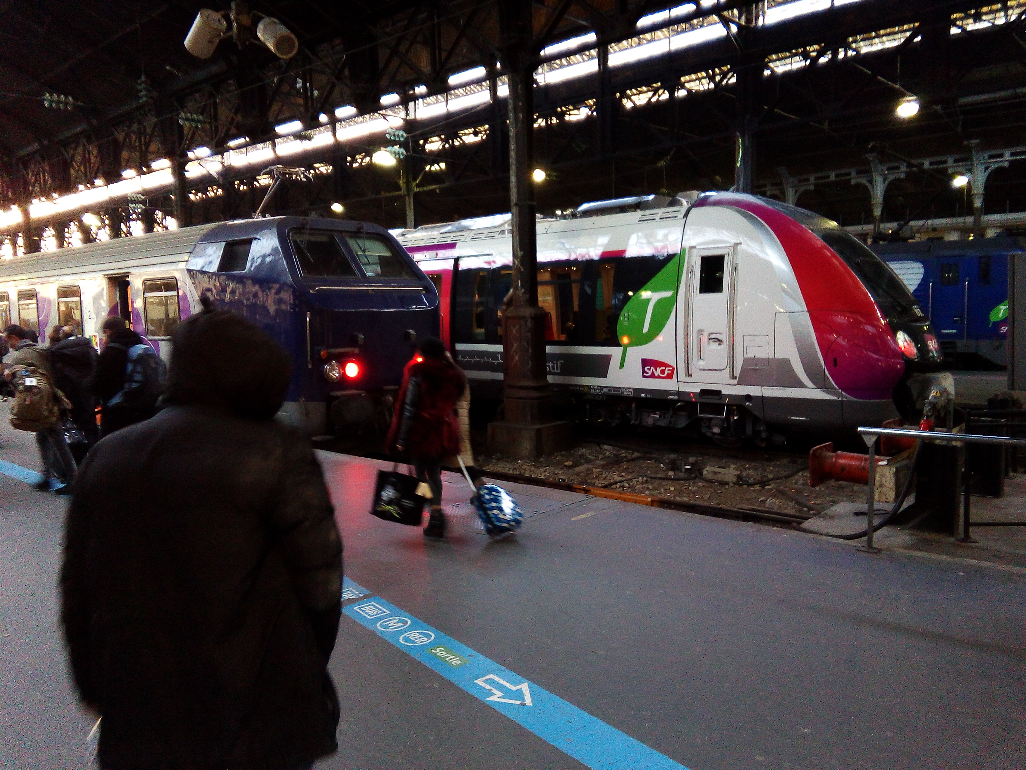 Trains at Gare St Lazare